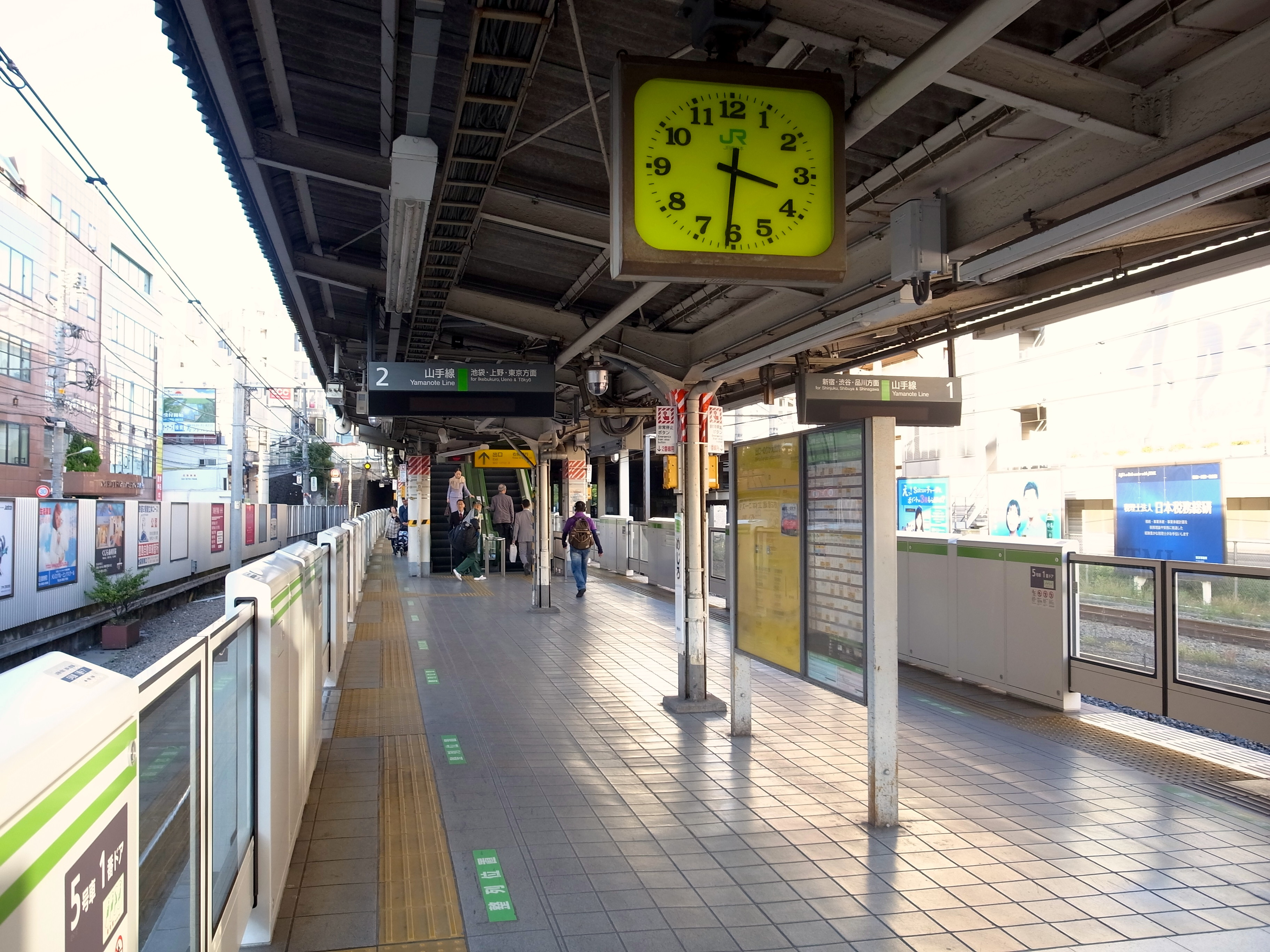 Meijiro Station platforms